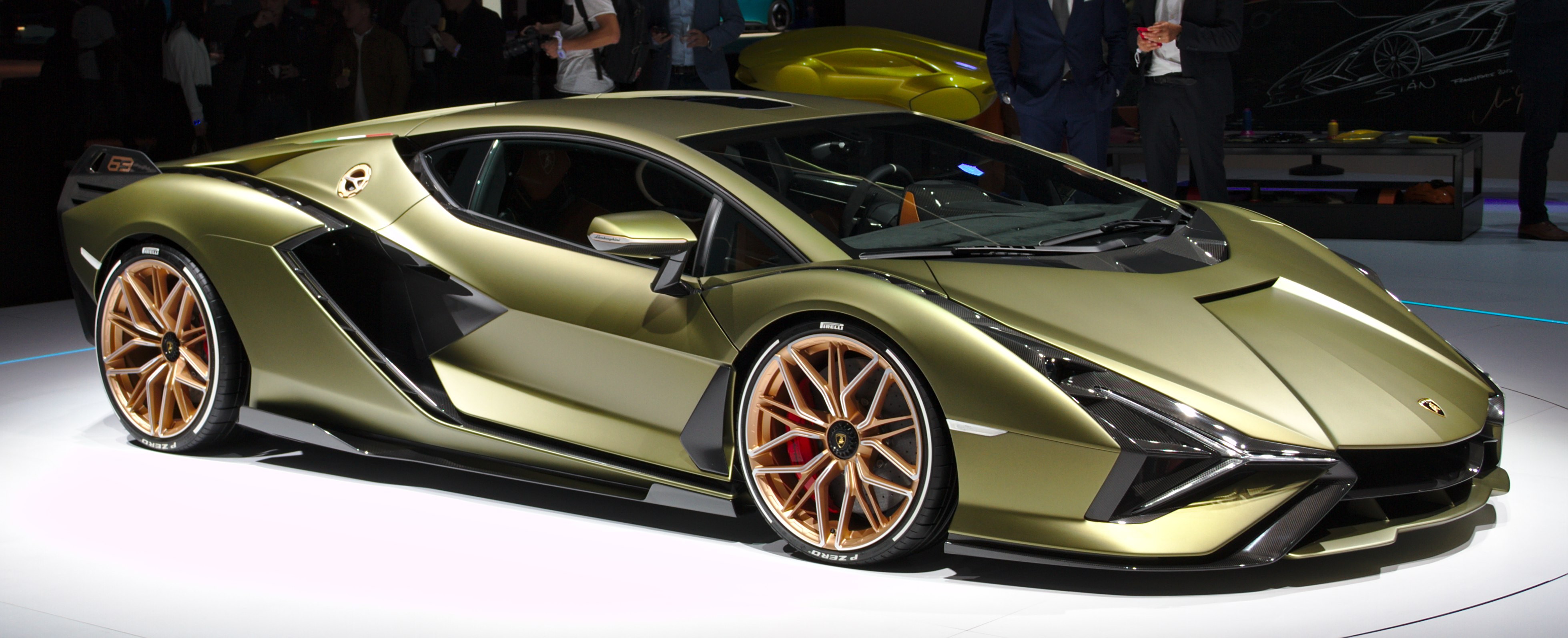 Lamborghini_Sian at IAA 2019